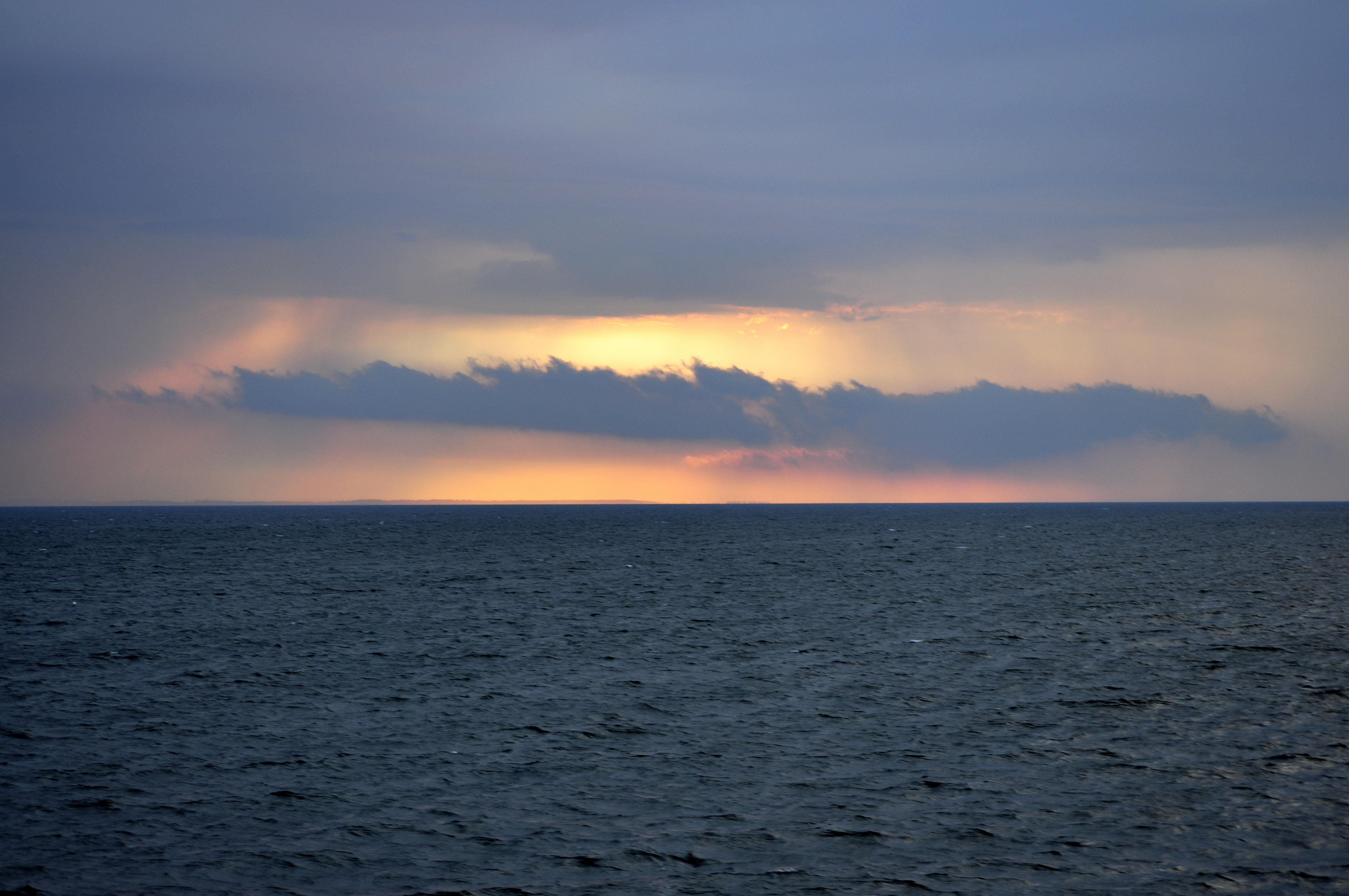 Picture taken in Hel after Wikimania 2010 conference.